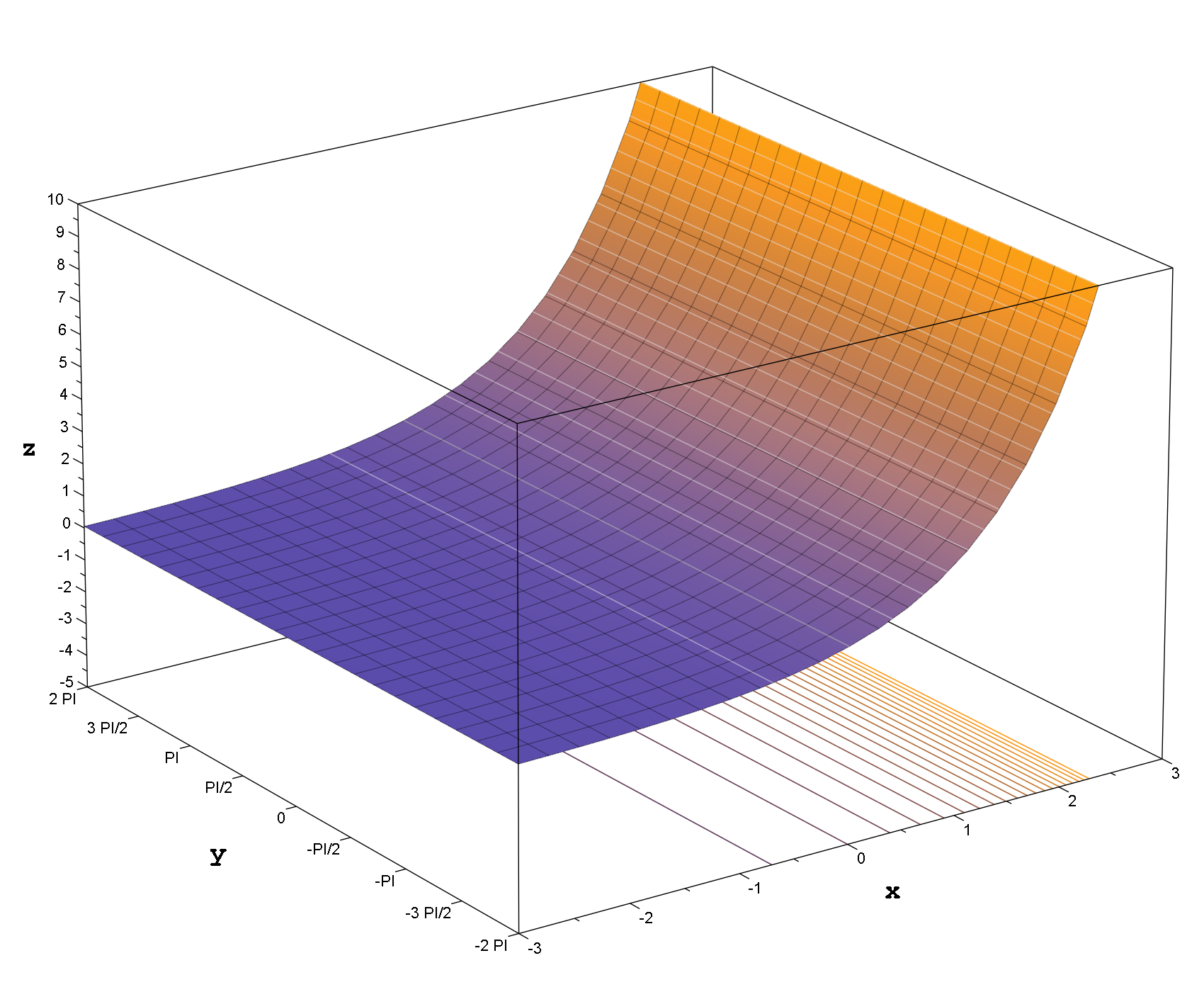 Diagram of the modulus of the exponential function in the complex plane. The plot is given by: z = | exp ⁡ ( x + i y ) | {\displaystyle z=|\exp \left(x+iy\right)|}